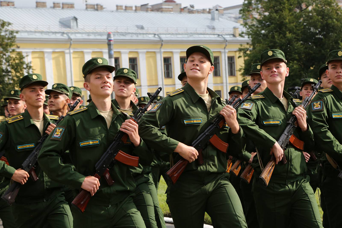 Military oath in the Mozhaisky Military Space Academy.